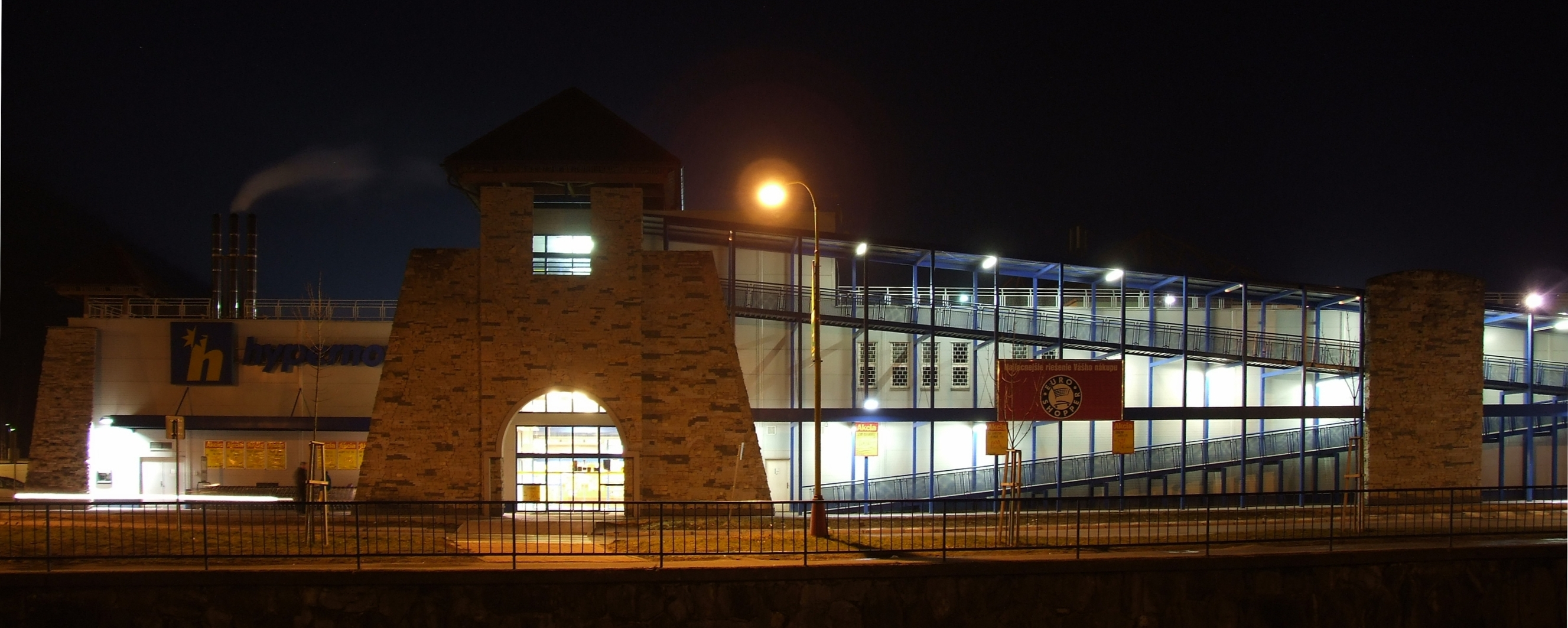 Hypernova hypermarket in Ružomberok, Slovakia